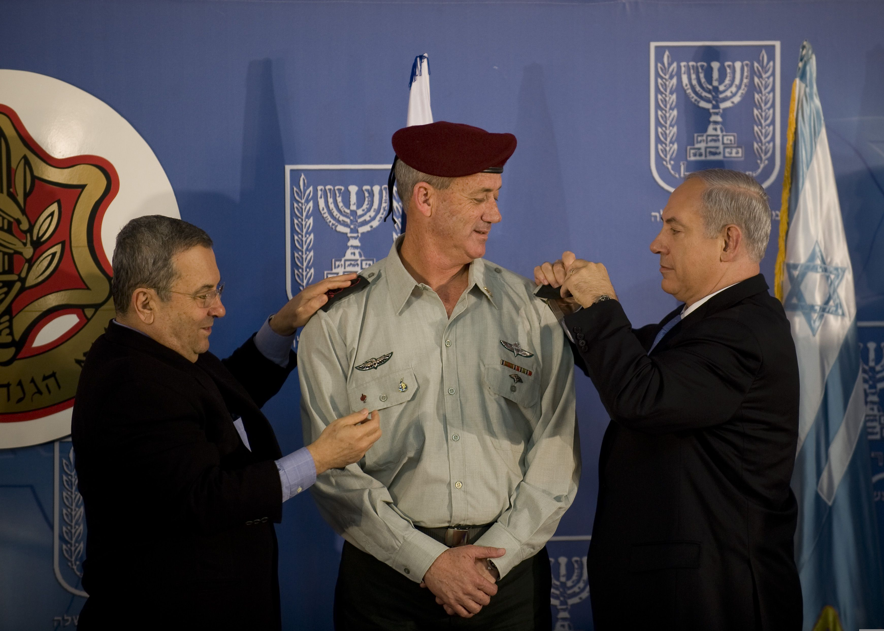 Rav Aluf Binyamin "Benny" Gantz, the 20th Chief of General Staff of the Israel Defense Forces, receiving rav-aluf (Lt. General) rank from the Defense minister Ehud Barak and the Prime minister Binyamin Netanyahu